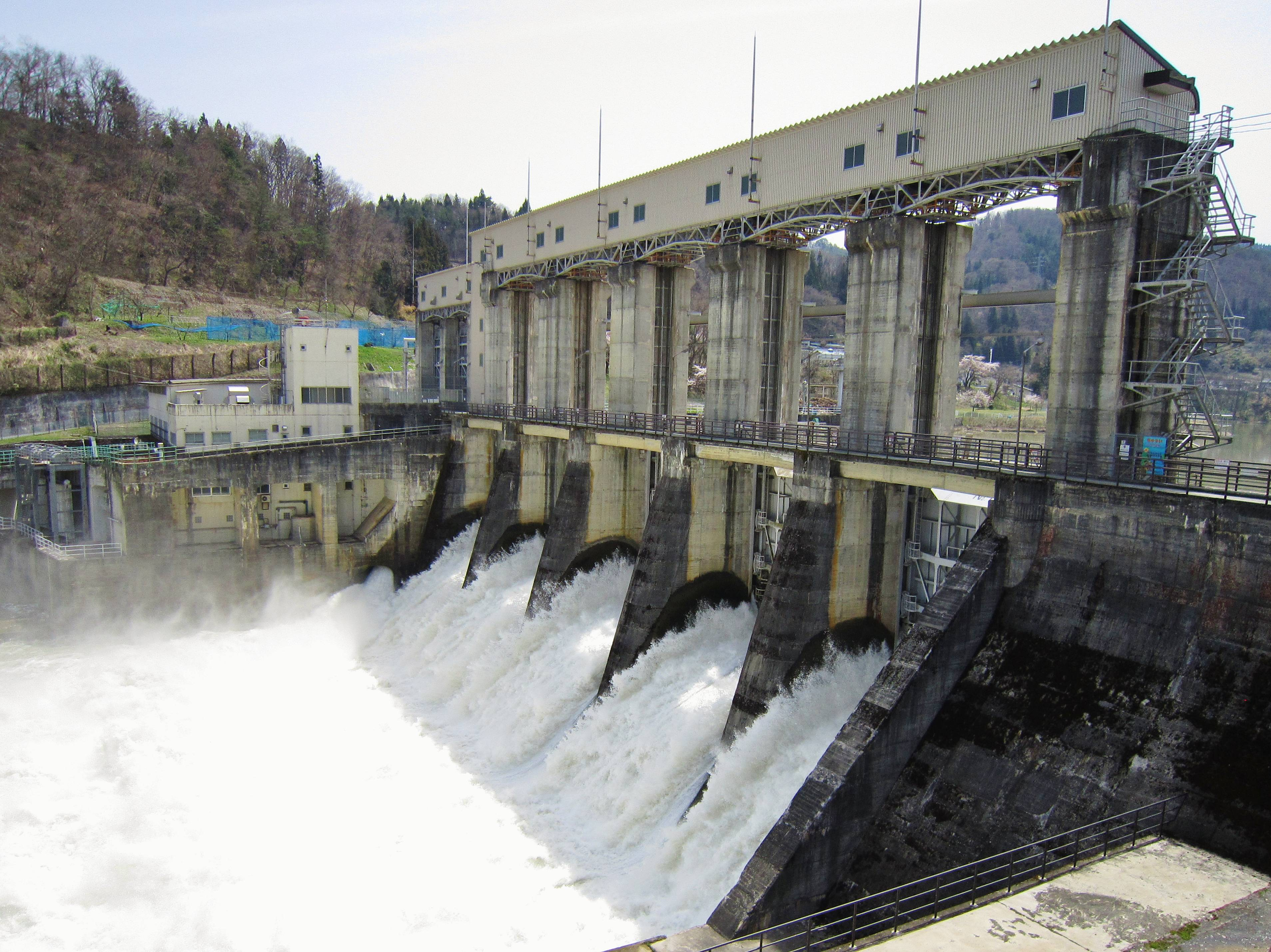 Kamigō Dam.